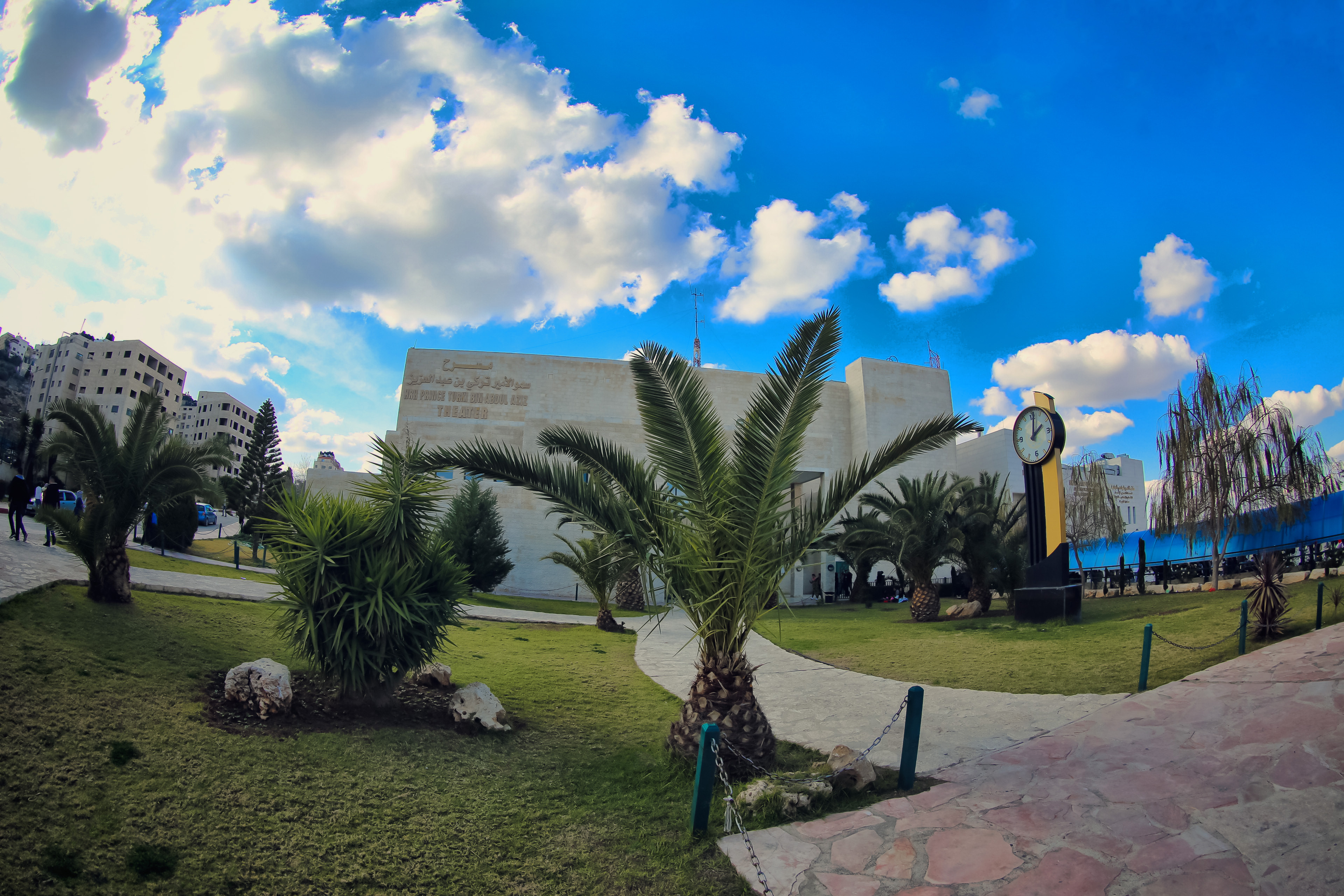 جانب من الحرم الجامعي الجديد